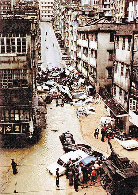 June 12 floods in 1966, Hong Kong.